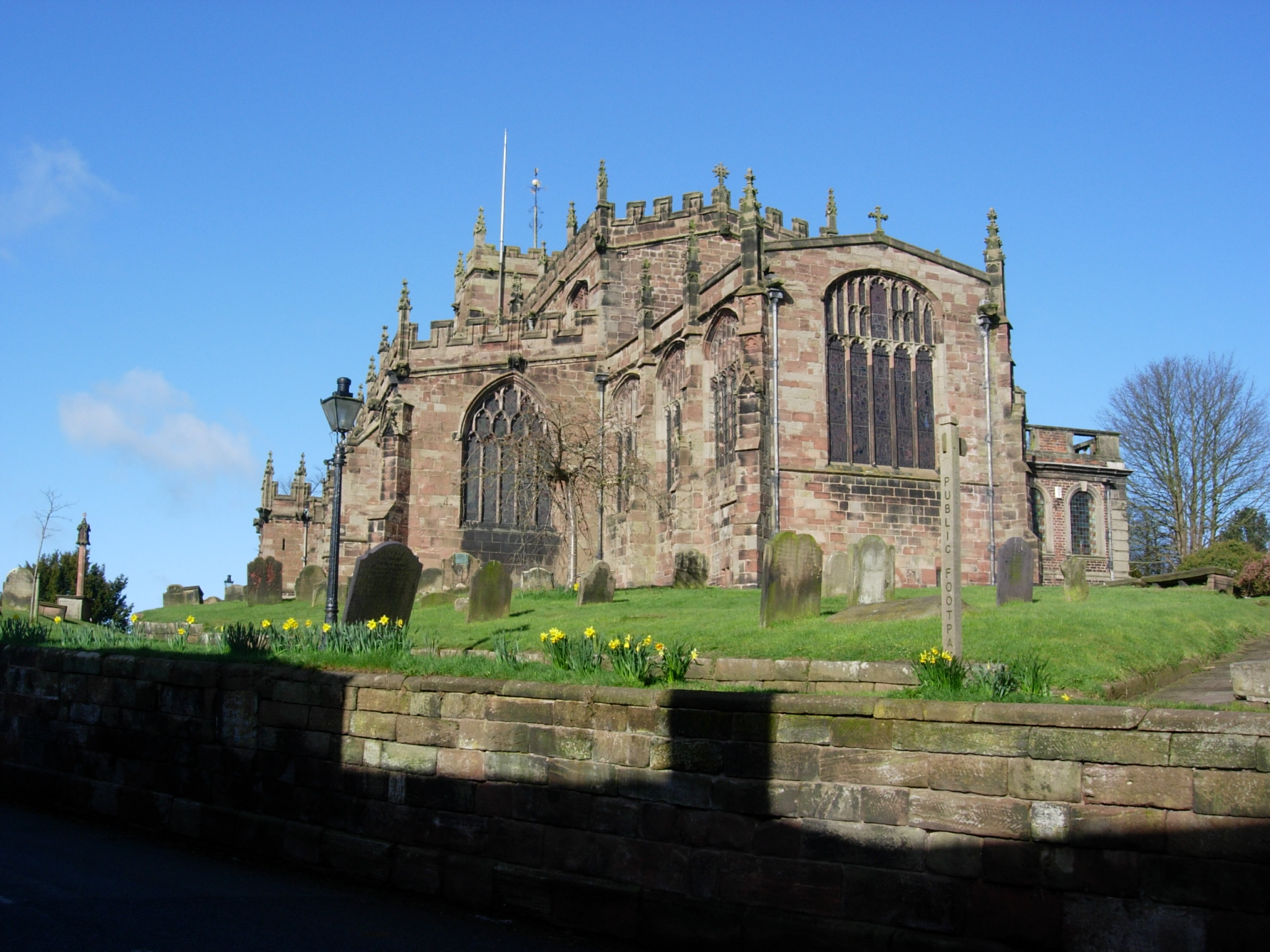 St Oswald's parish church, Malpas, Cheshire, seen from the east